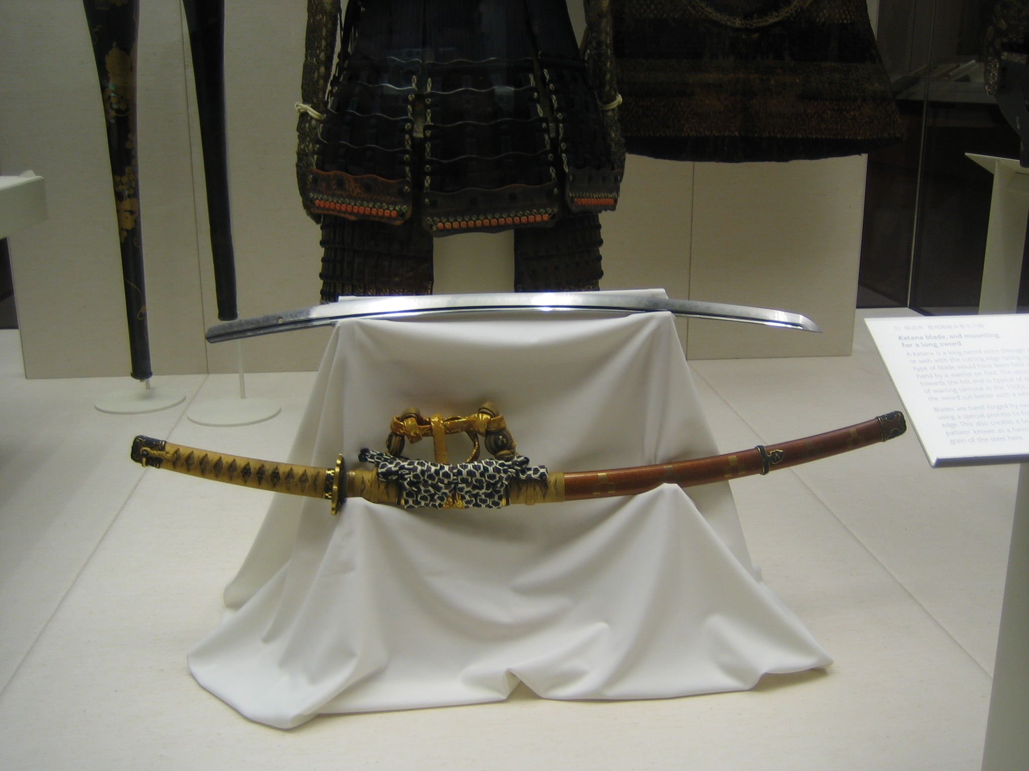 Antique Japanese tachi with koshirae, British museum .